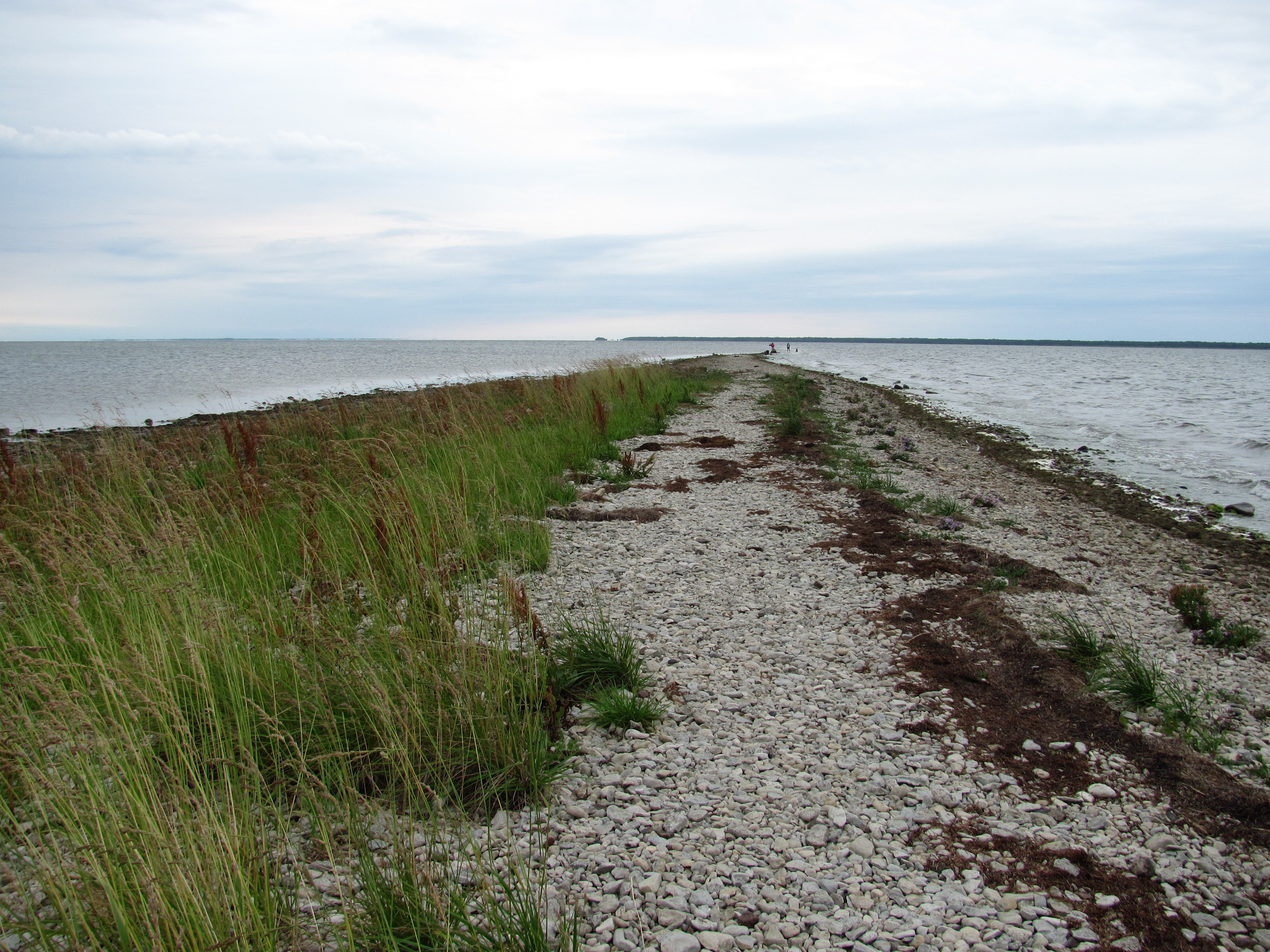 End of the Sääretirp peninsula.